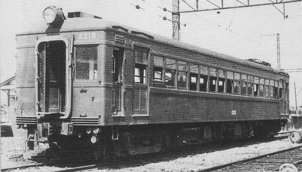 Sangū Express Electric Railway #2215.